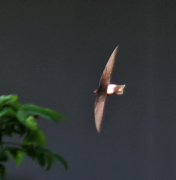 House swift Apus affinis in Kolkata, West Bengal, India.